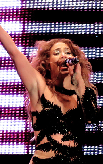 Jennifer Lopez live at the Pop Music Festival in São Paulo, Brazil.